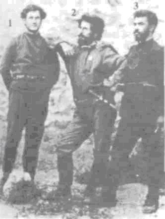 Misho Shkartov, Todor Panitsa and Mircho Ikonomov in Bansko, 1908